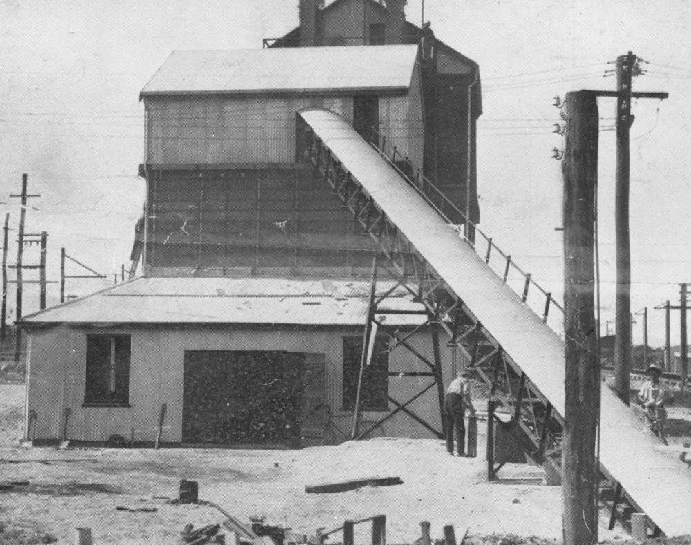 Scraper conveyor belt at the coke ovens, Bowen, 1933. View of the scraper conveyor at the new State Coke Ovens at Bowen.The conveyor takes the coal from a pit under the railway line and carries it to the crusher.